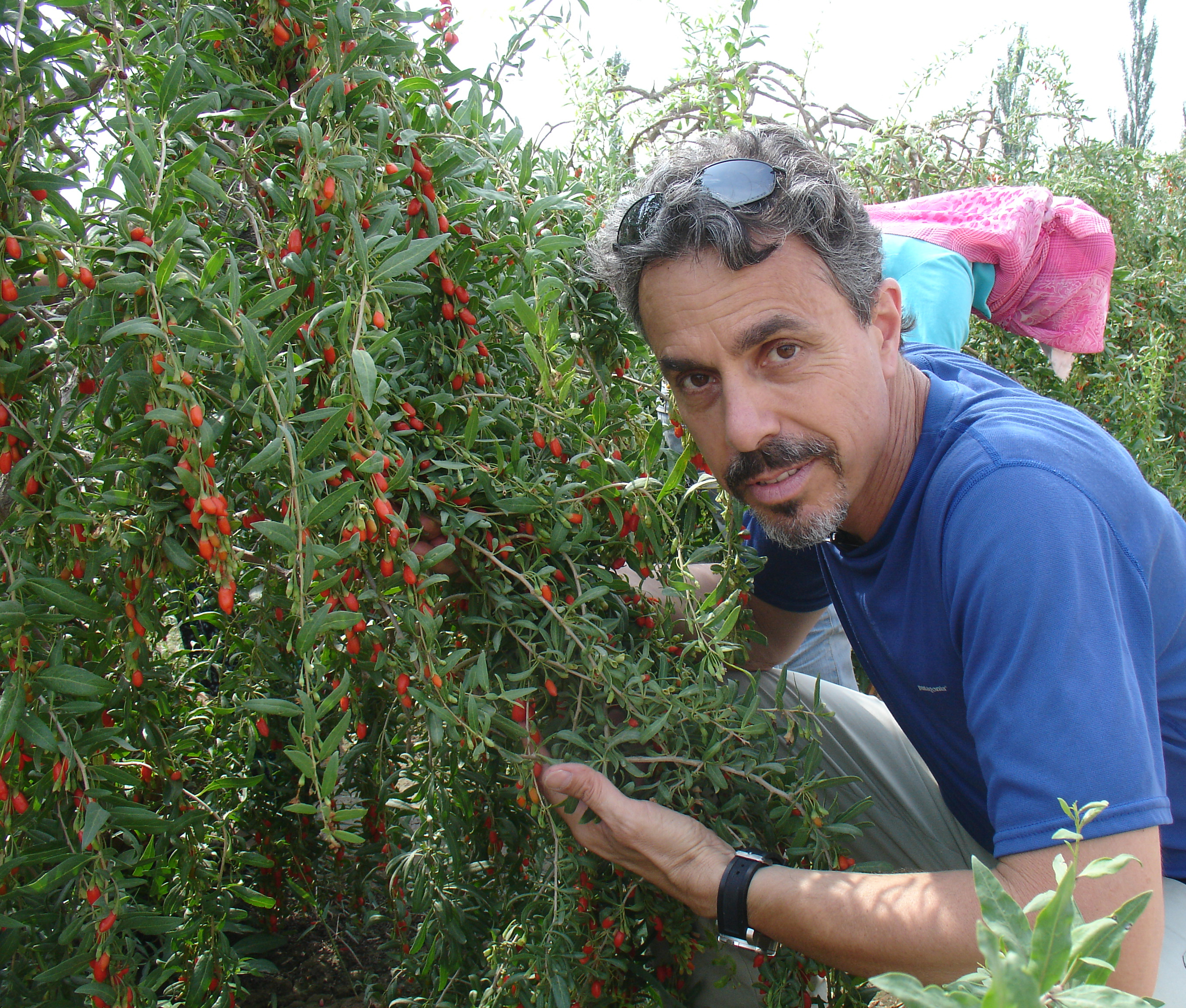 In 2010 Chris Kilham traveled to China’s remote Ningxia region, to see the Goji harvest. As a Medicine Hunter, Chris has witnessed the cultivation and harvesting of many plants around the world.